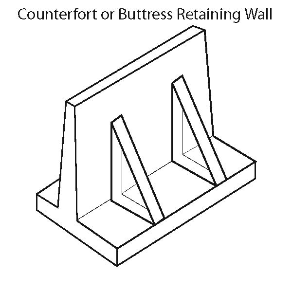 Author: Amber Smith Created using Adobe Illustrator